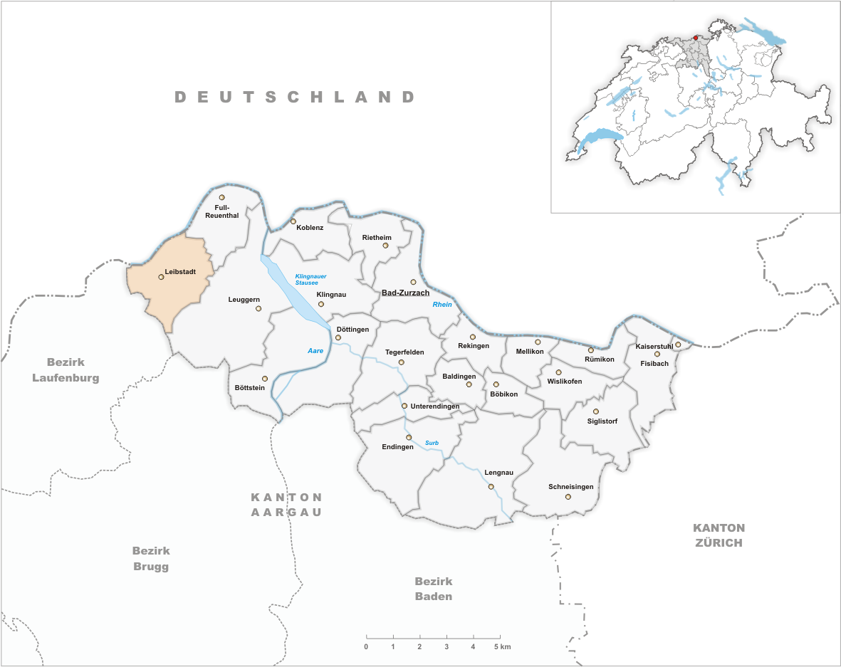 Municipality Leibstadt